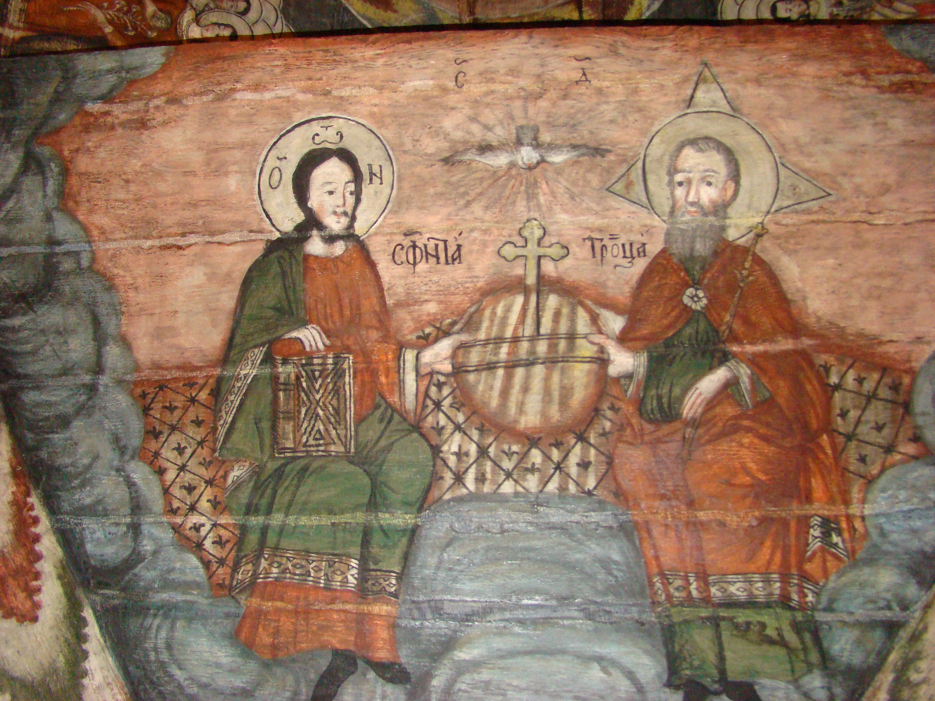 Wooden church in Bica, Cluj countyRomână: Biserica de lemn din Bica, județul Cluj